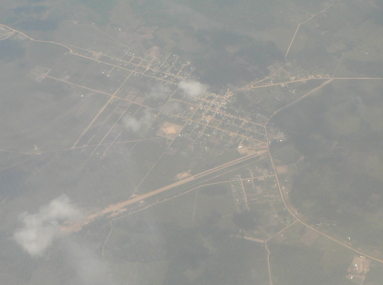 Ixiamas, Bolivia, seen from a plane.